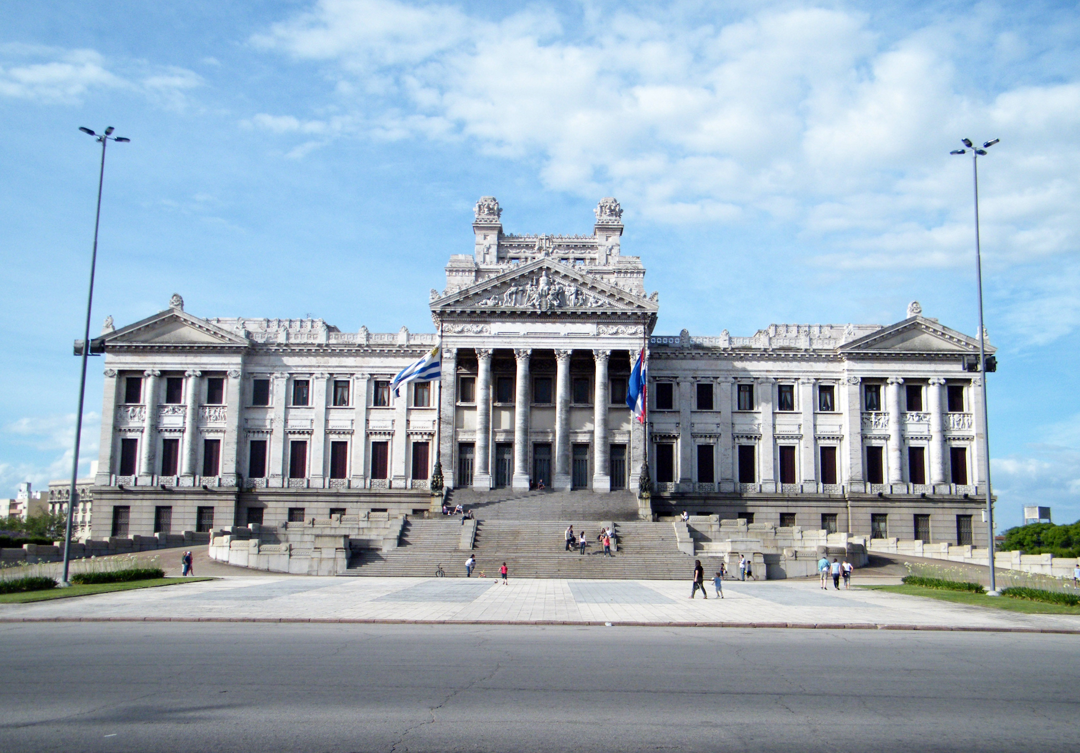 Palacio Legislativo in Montevideo, Uruguay. Photographed by user Coolcaesar on November 17, 2012.